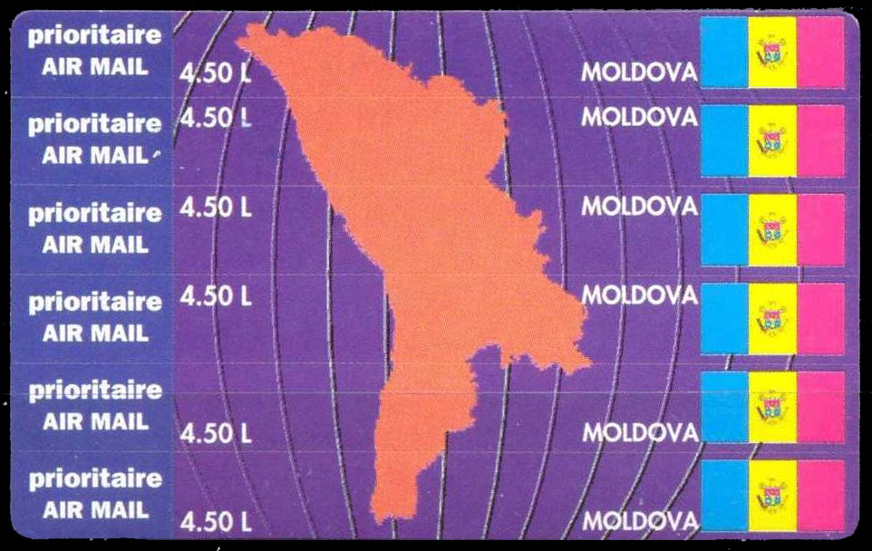 Stampcard of Moldova, 1994